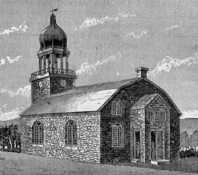 Second Old Dutch Church building, Kingston, NY, USA. Shown as it appeared following repair of damage caused by British burning of city in 1777.